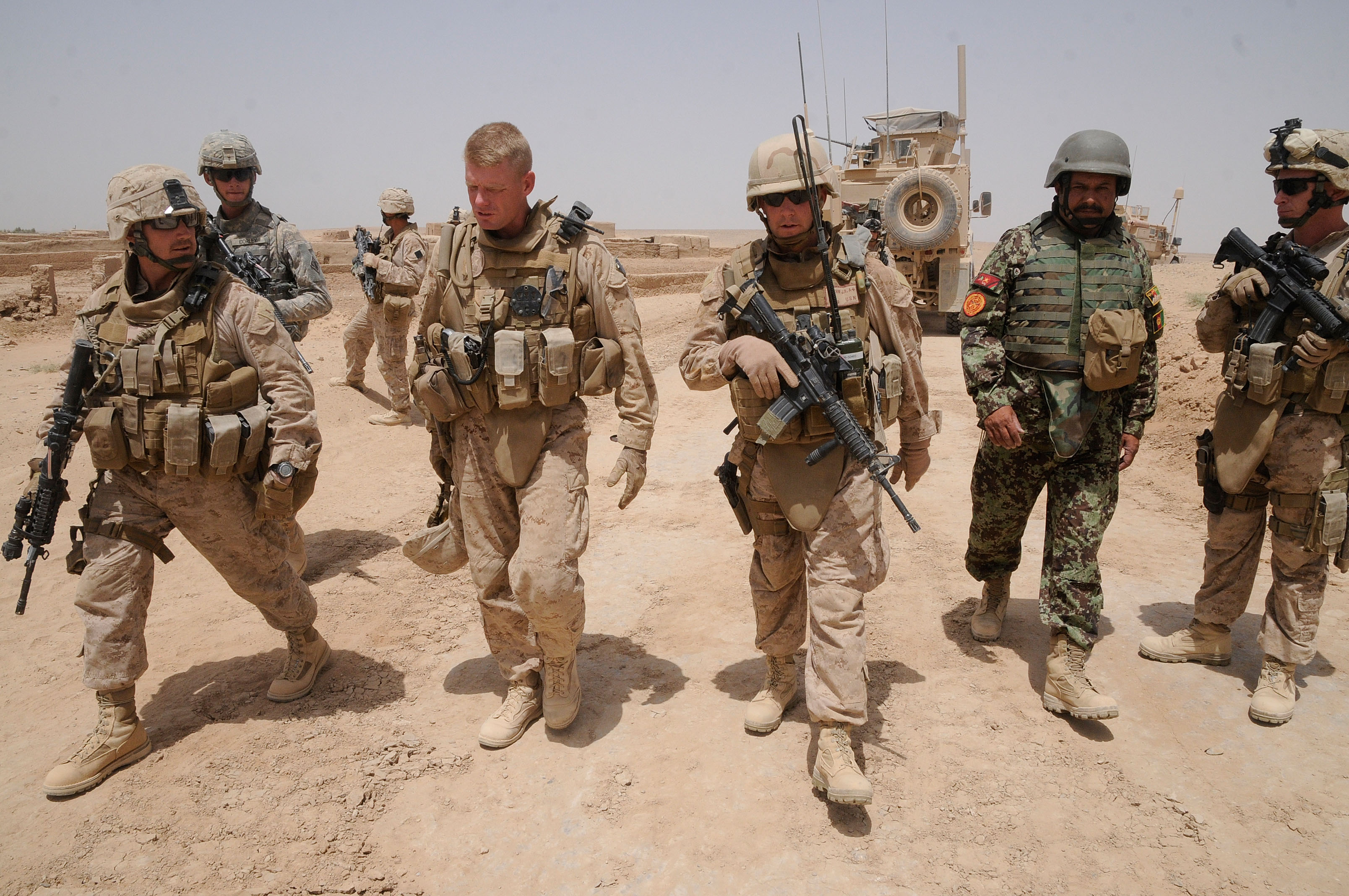 MARJAH, Afghanistan (June 28, 2010) Seabees, Marines, Soldiers and members of the Afghan National Army take a tour of an area surrounding a newly completed Mabey-Johnson Bridge project. (U.S. Navy photo by Mass Communication Specialist 2nd Class Ace Rheaume/Released)